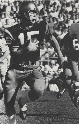 Purdue University quarterback Mike Phipps